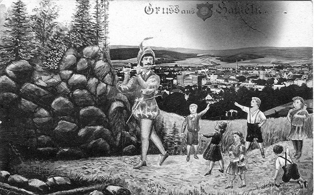 Postcard, undated ( ca.1914 ). Title: "Greetings from Hameln"